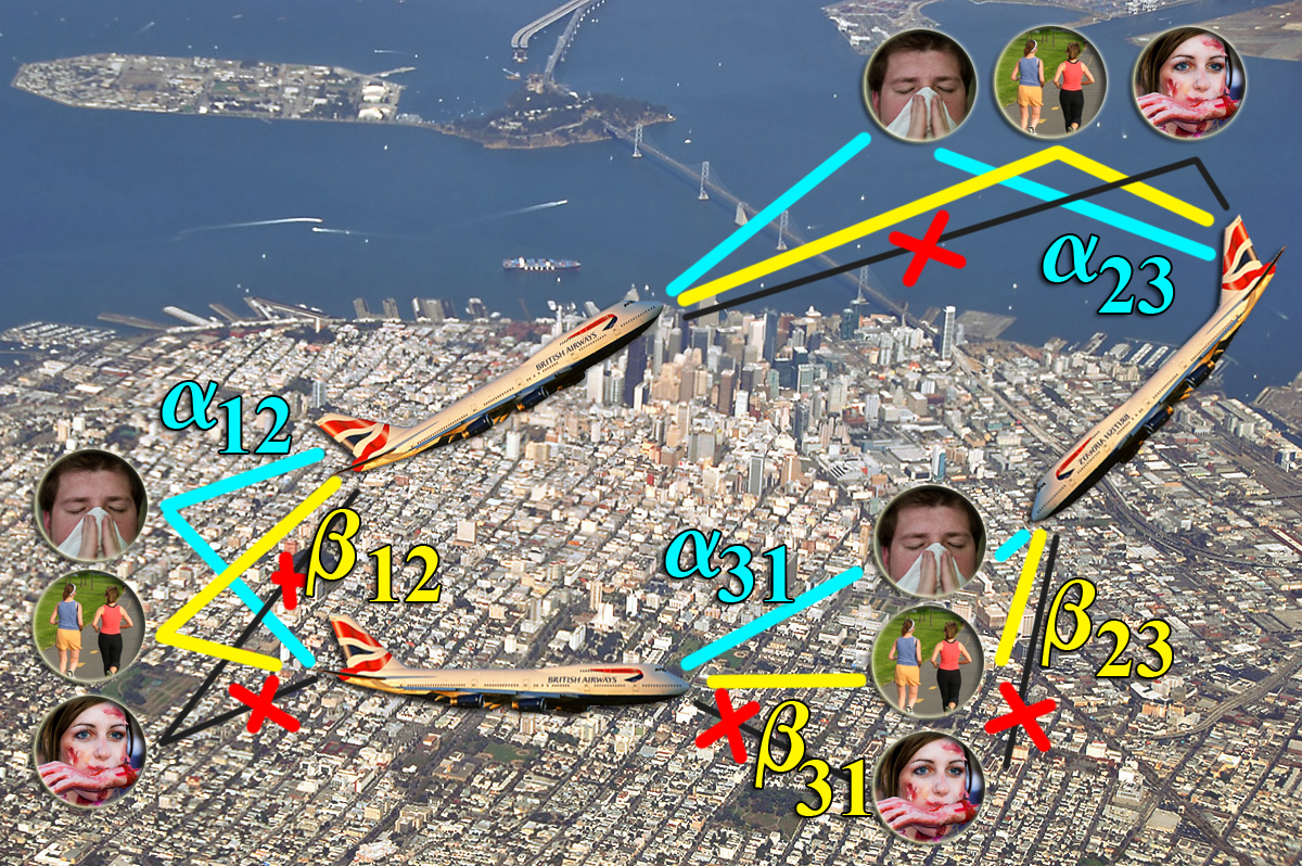 Three groups of individuals (S, I, R) with only individuals in S and I travelling between the three patches.